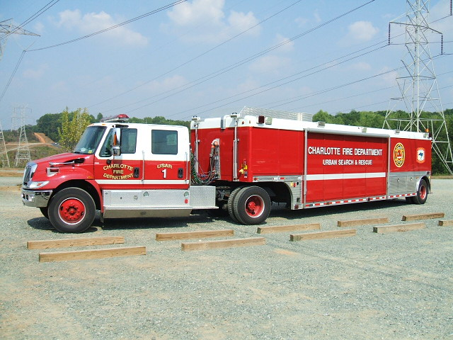 USAR 1 at the U.S. National Whitewater Center for swiftwater rescue training.